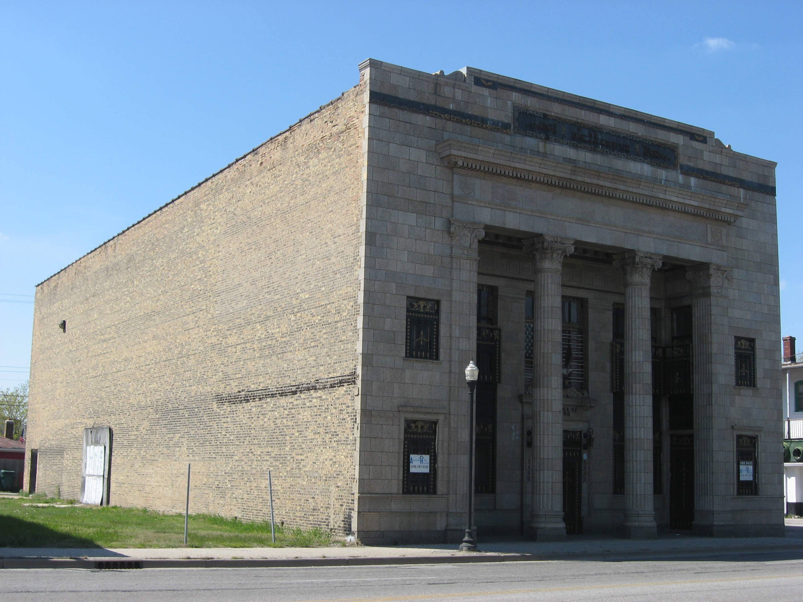 Front and southern side of the State Bank of Hammond Building, located at 5444-5446 Calumet Avenue in Hammond, Indiana, United States. Built in 1927, it is listed on the National Register of Historic Places.